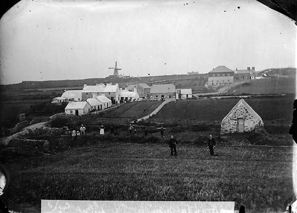 1 negative : glass, wet collodion, b&w ; 12 x 16.5 cm.